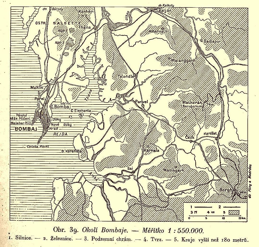 Bombay and its surroundings after the First World War. The descriptions are in Czech.